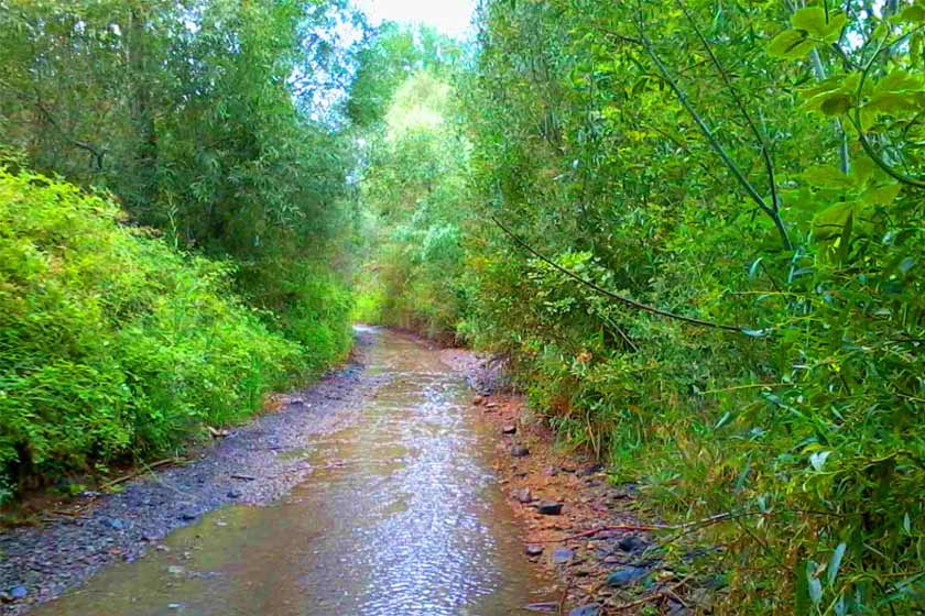 it's a picture of hesar , forty kilometers away from torbat heydariyeh in khorasan razavi province located in Iran